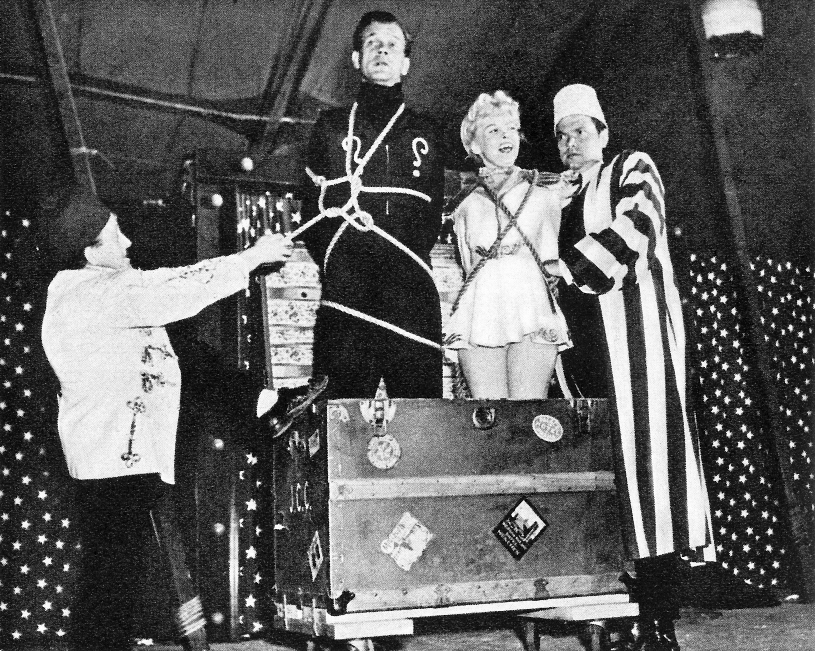 Photograph of George (Shorty) Chirello, Joseph Cotten, Eleanor Counts and Orson Welles illustrating a Look magazine photocrime feature about The Mercury Wonder Show ("The Trunk Murder")